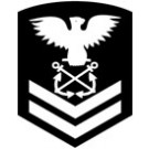 This is the sleeve insignia for a Petty Officer Second Class in the USNLCC.